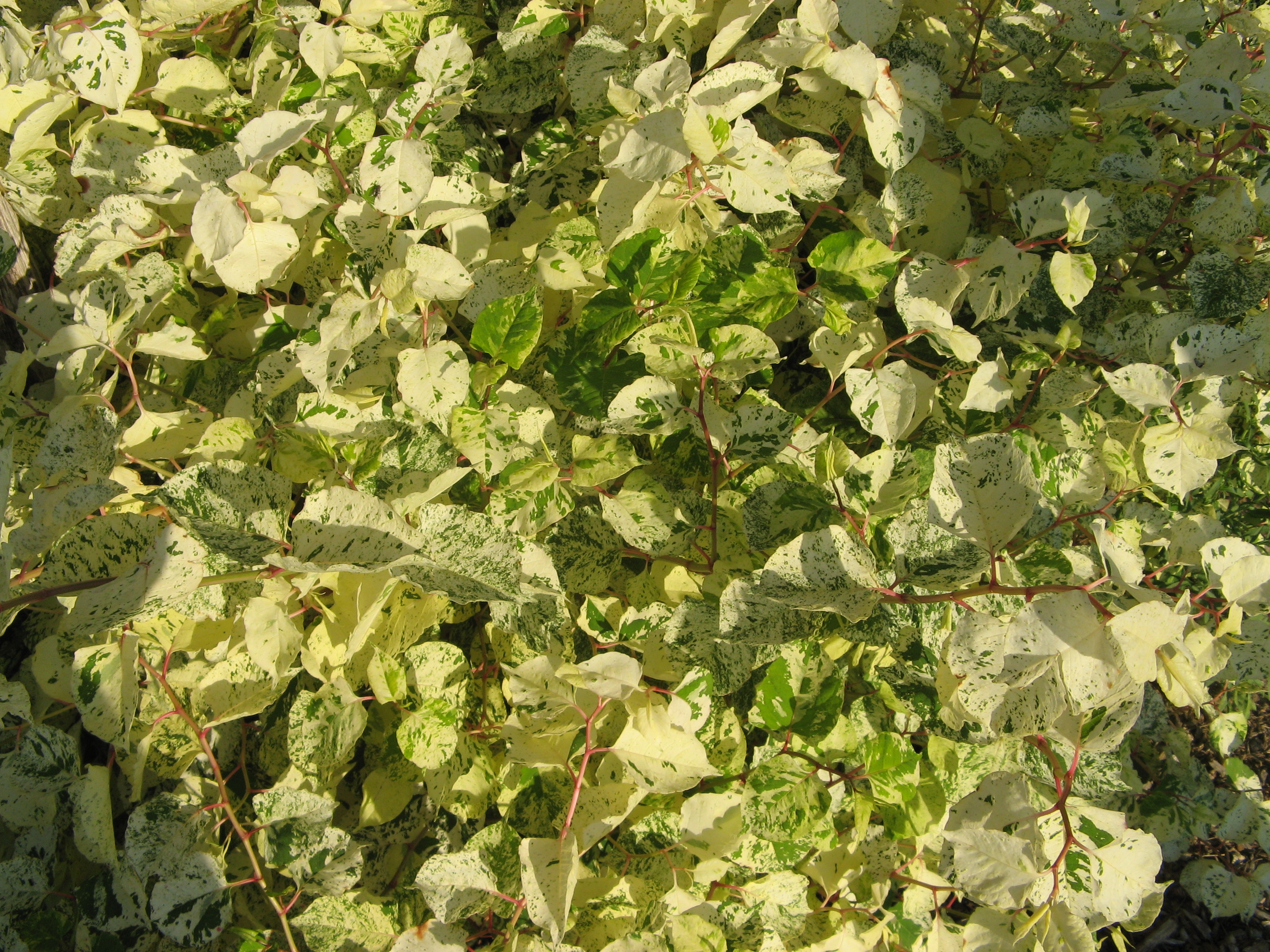 Foliage of variegated Japanese Knotweed